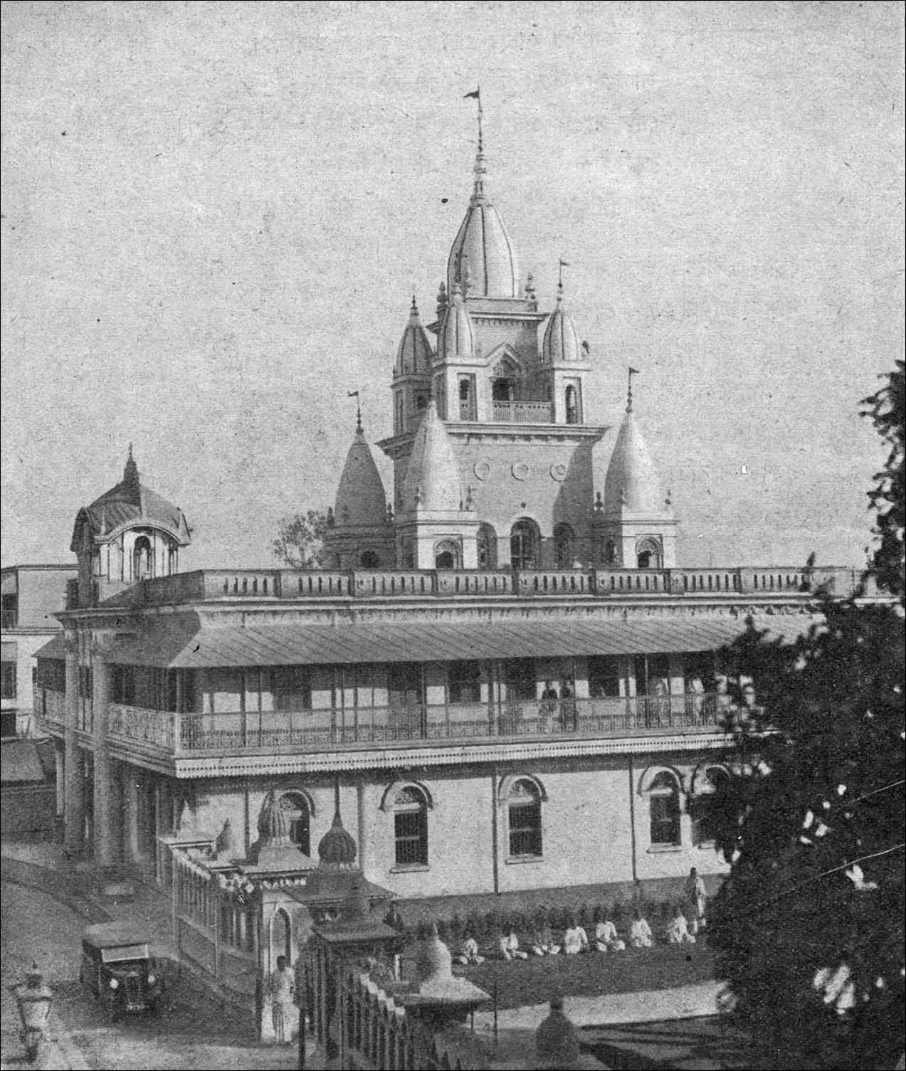 Gaudiya Math Bagh Bazaar